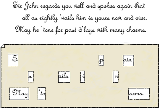 One possible design for a Cardan Grille. SteveBKK May 2006 to accompany article on The Cardan Grille